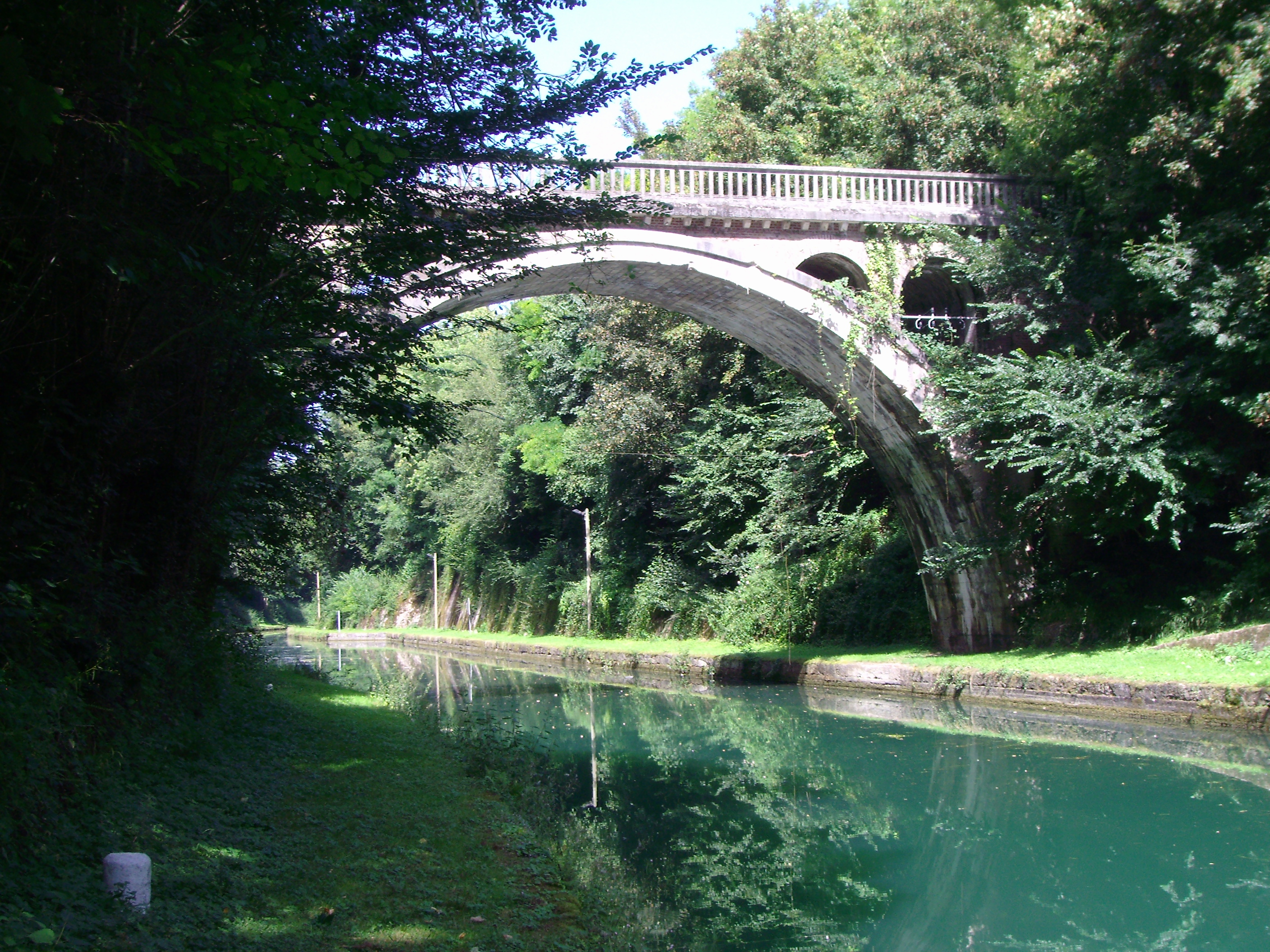 Riqueval Bridge in Frence